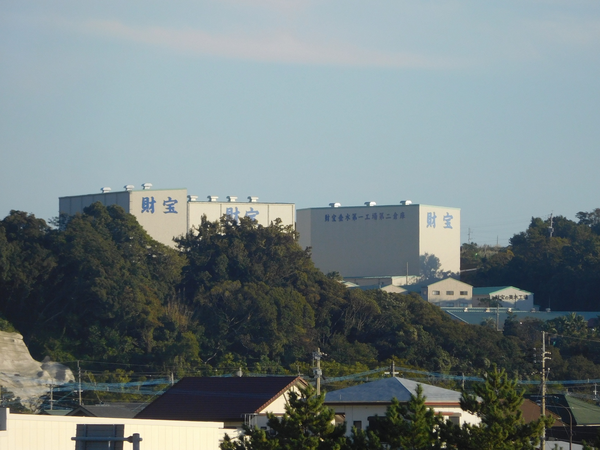 Zaiho Company (Mineral Water) Tarumizu Factory (Tarumizu City, Kagoshima, Japan)